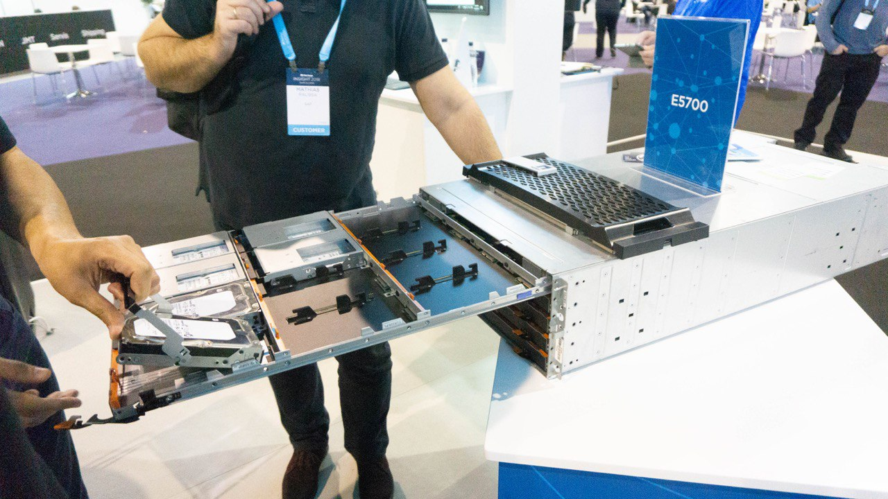 NetApp E5700